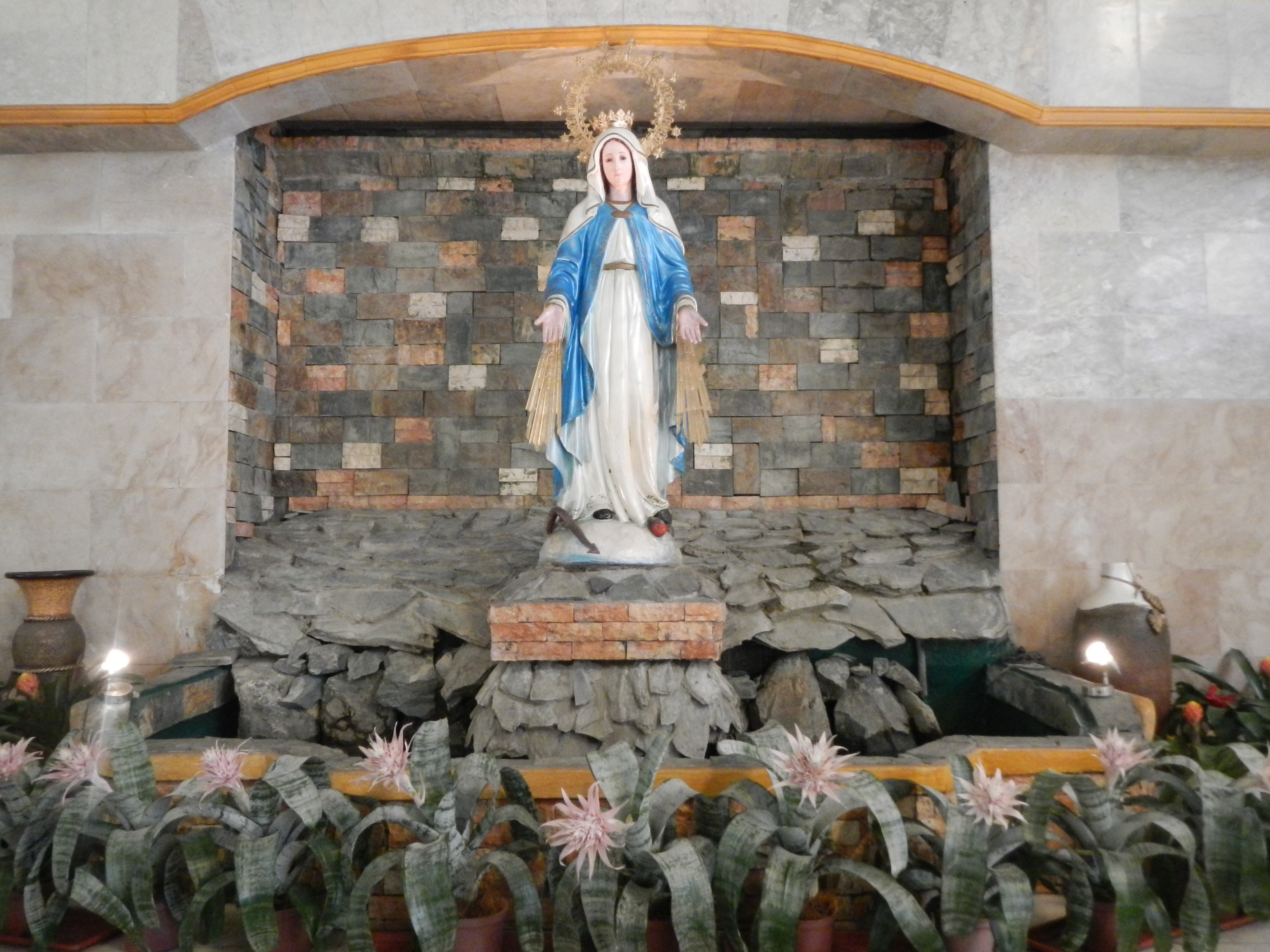 Vicariate of Our Lady of Grace Diocesan Shrine of Our Lady of Grace (Grace Park)[1]Roman Catholic Diocese of Kalookan